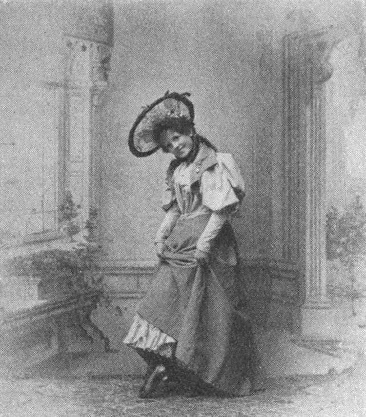 Hildegard Lindzén (1872-?), Swedish actress and dancer in one of her performances at Södra Teatern.